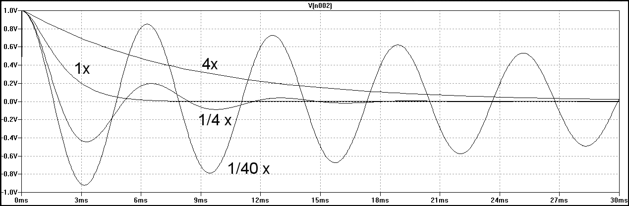 Damping in resonator, electrical